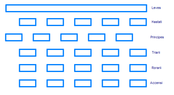 Diagram showing the battle formation of the Roman army in the 3rd and 4th centuries BC